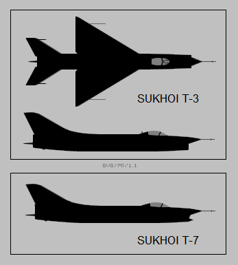 Multi-view silhouettes of the Sukhoi T-3 and T-7 Prototype interceptors